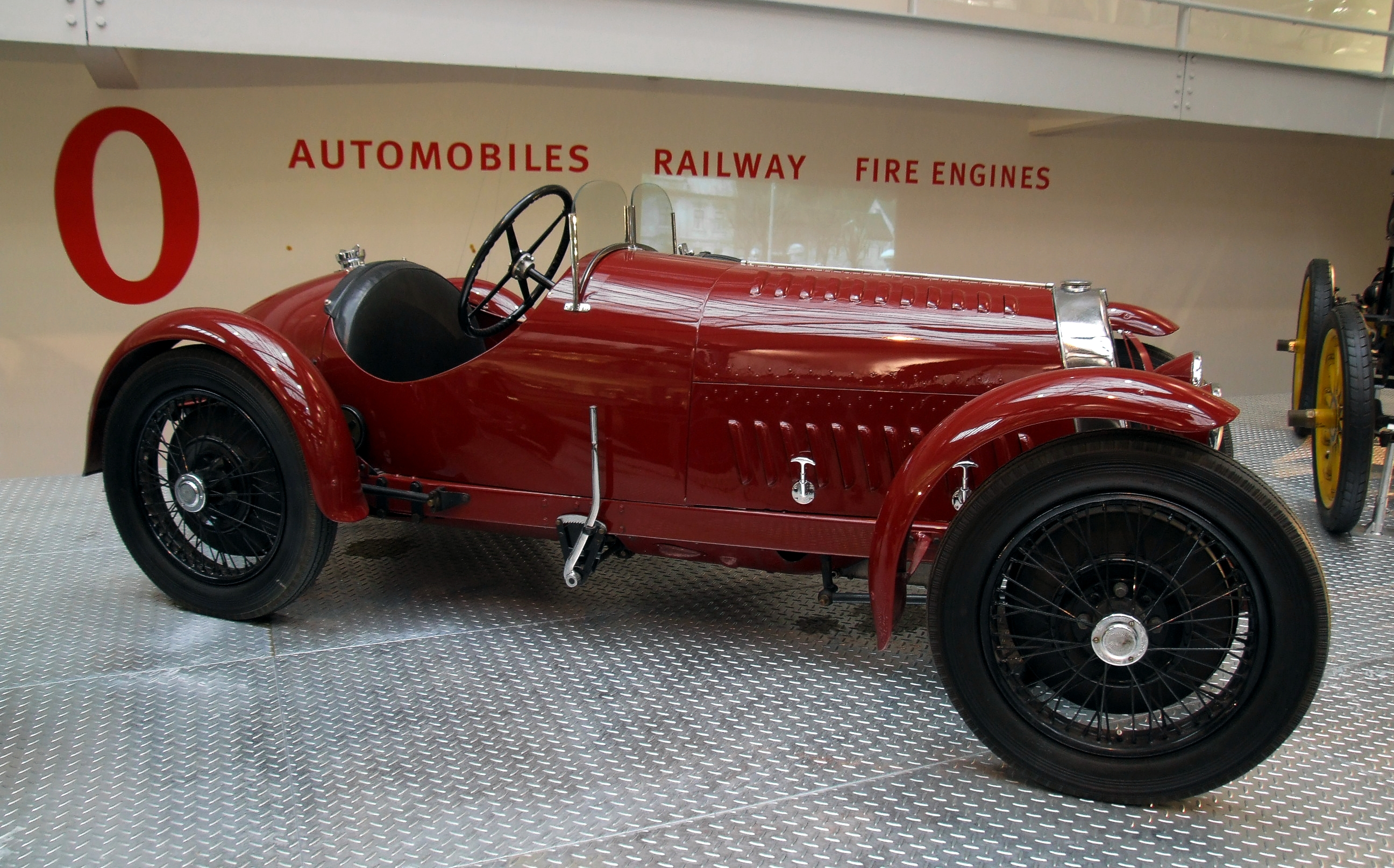 National Technical Museum in Prague - Wikov 7/28